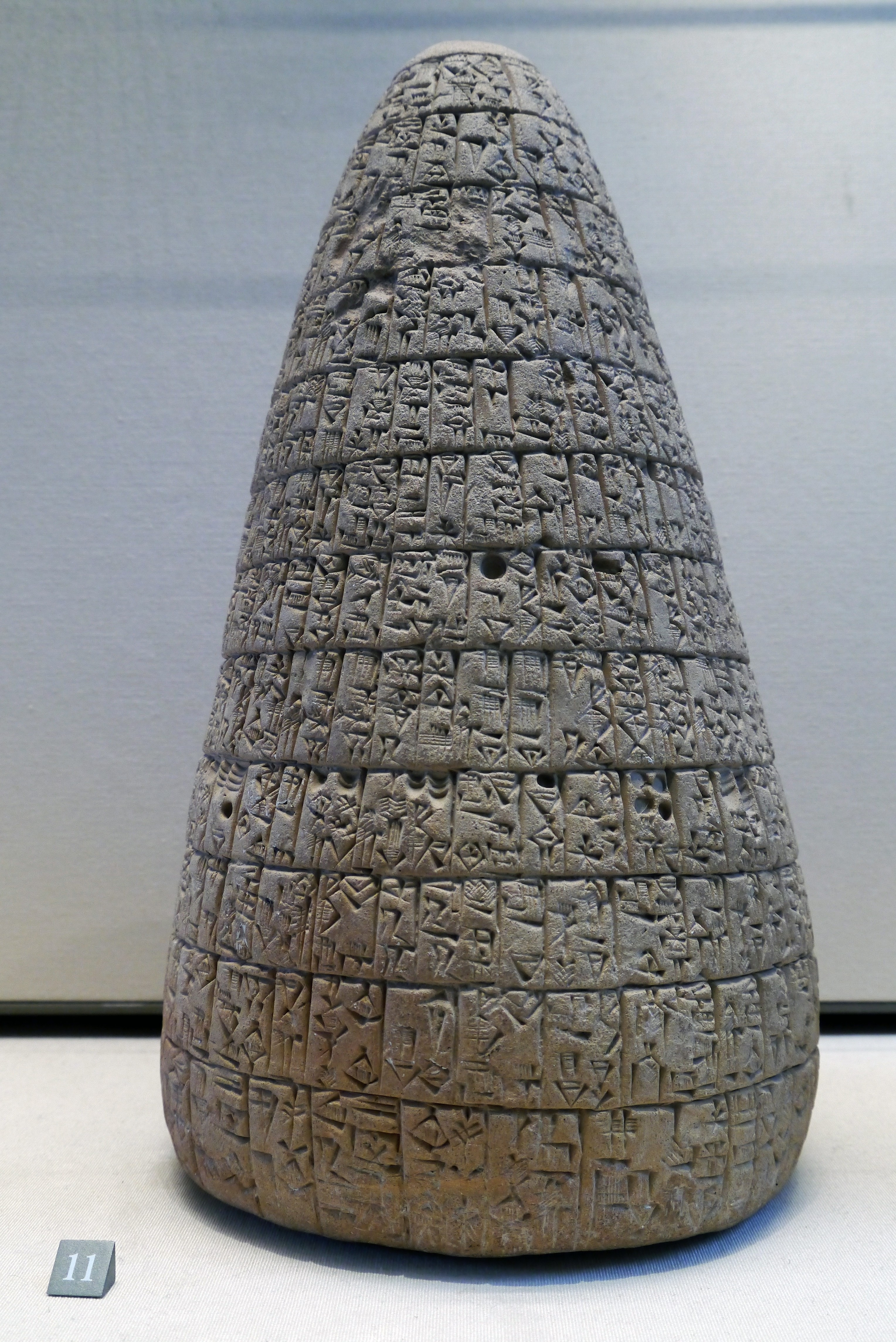 Cone of Urukagina, king of Lagash, detailing his reforms againt abuse of "old days".